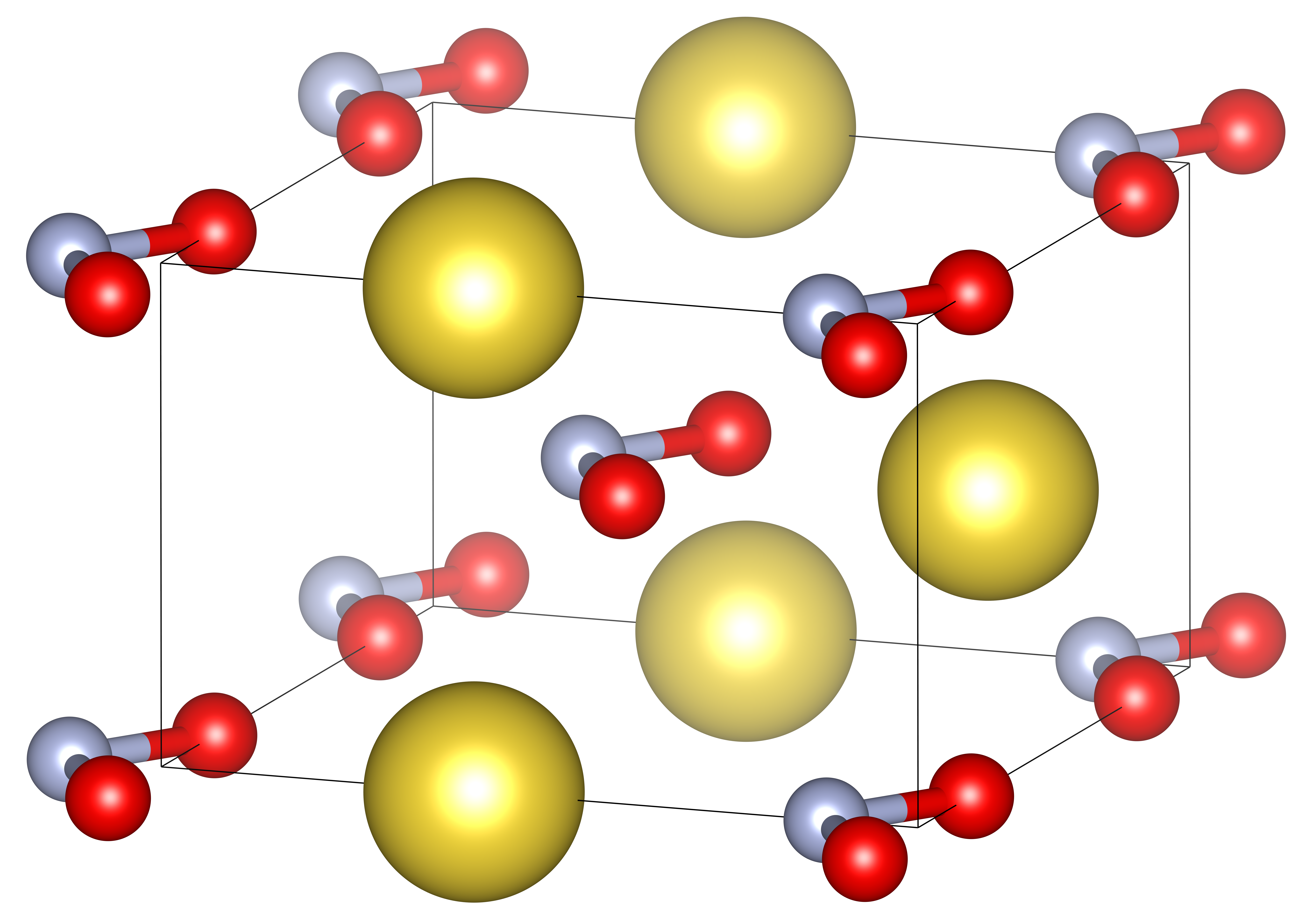 Unit cell of sodium nitrite. Created with VESTA. Source of crystal structure: T. Gohda, M. Ichikawa (1996-11). "The Refinement of the Structure of Ferroelectric Sodium Nitrite". Journal of the Korean Physical Society 29: 551–554.